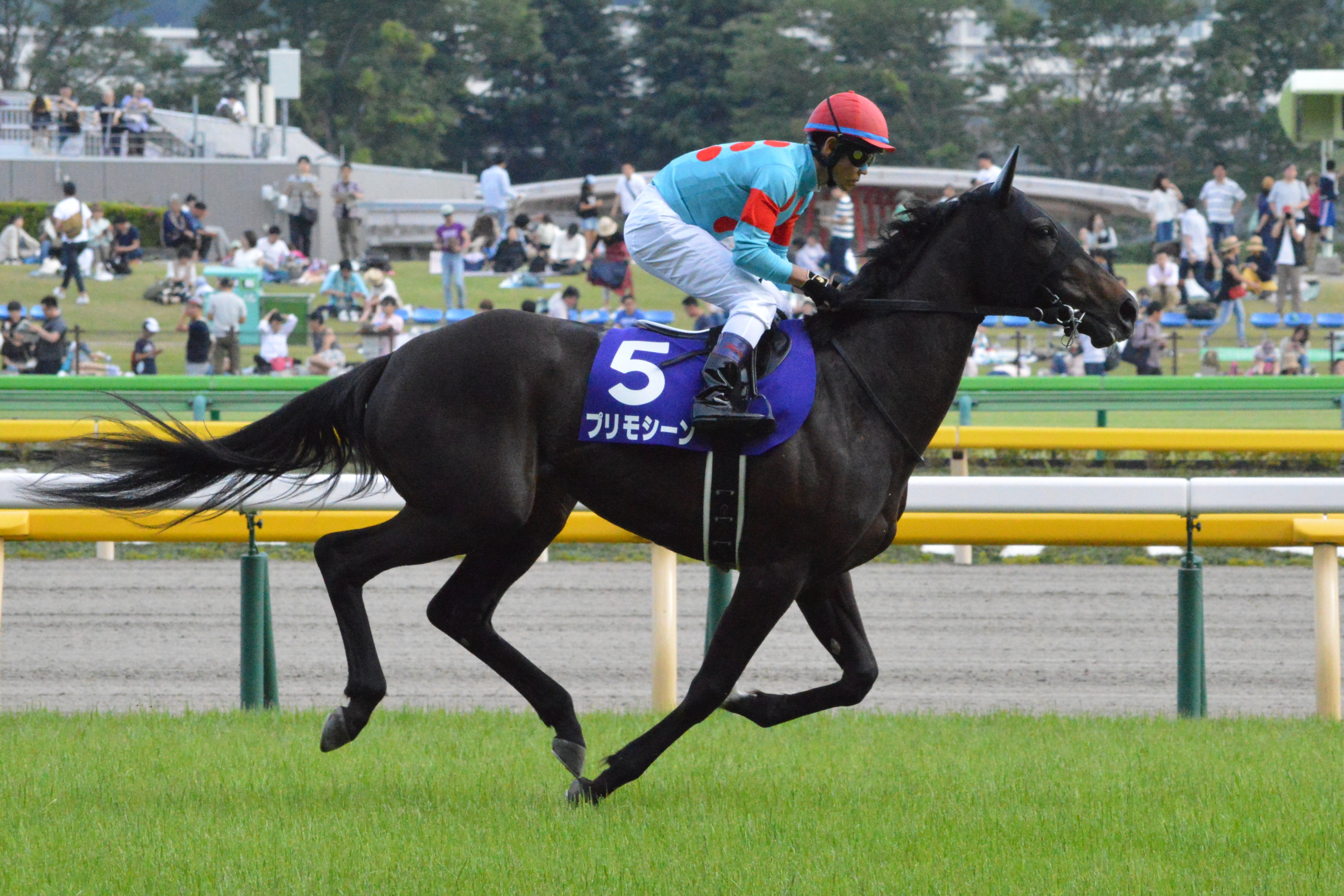 Japanese race horse Primo Scene at Tokyo racecourse. Tokyo (JPN) 6 May 2018 NHK Mile Cup (Grade 1) (3yo Colts & Fillies) (Turf) 1m Firm RankHorse NameOddsAgeWgtTrainerJockey1stKeiai Nautique (JPN)118/10C39-0Osamu HirataYusuke Fujioka2ndGibeon (JPN)42/10C39-0Hideaki FujiwaraMirco Demuro3rd - 4th , 6th - 18th/omission5thPrimo Scene (JPN)98/10F38-9Tetsuya KimuraKeita Tosaki